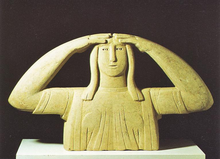 Sculpture „Mit Weitblick“, created by the german sculptress Katharina Szelinski-Singer in 1990, 1997, sandstone, 50 x 90 x 11 cm